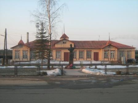 Railway station building in Sonkovo